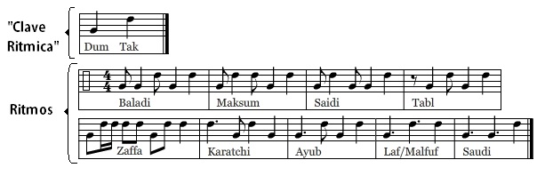 Arabic Rhythm